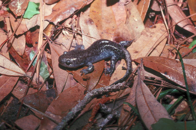 An adult mole salamander (Ambystoma talpoideum)